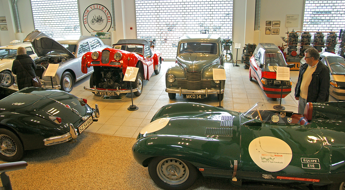 Sommers's Automobile Museum, Nærum Hovedgade 3, Nærum in North-Zealand, Denmark is a Danish vintage and veterancar museum established 2004. In the foreground a Jaguar Type D, one of the most succesful Jaguar models, winning Le Mans Race in 1955, 1956 and 1957